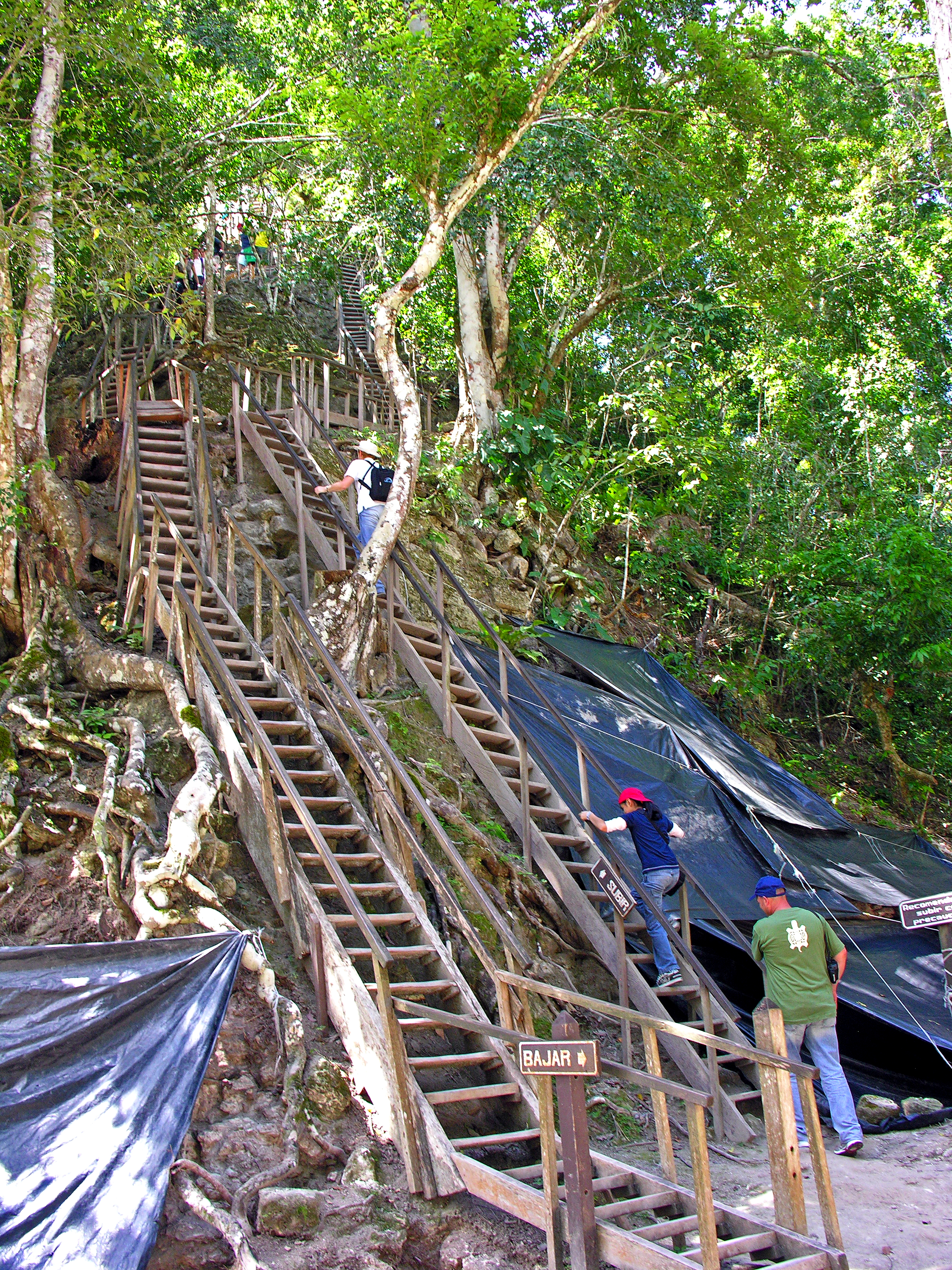 These are the wooden stairs used to climb Temple IV. It faces east, stands 212 feet from the base of the platform supporting its pyramid to the top of its roof comb, the highest standing aboriginal New World structure. It is estimated that some 250,000 cubic yards of construction material have been incorporated in Temple IV and its supporting platform.